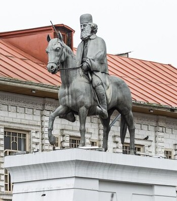 Mirza Khan statute at Rasht